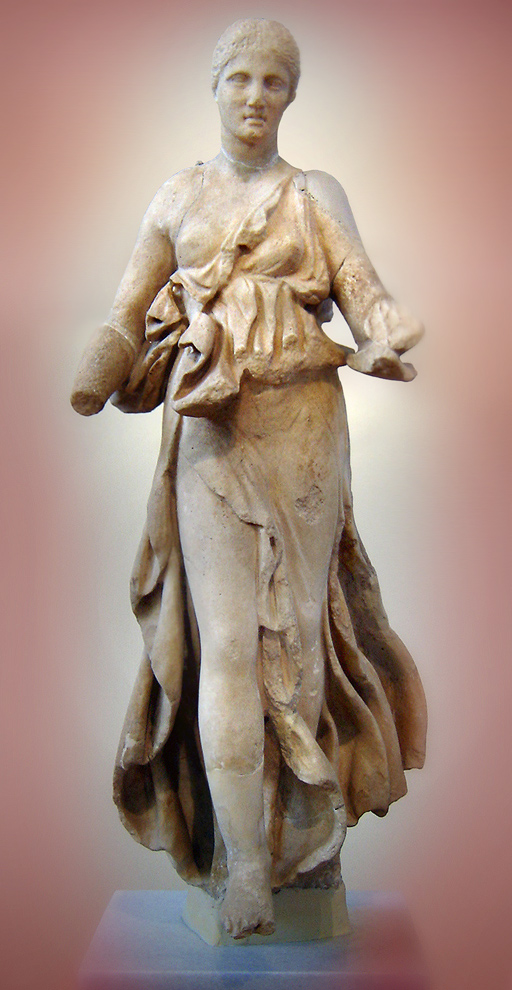 Statuette of Nike. Parian marble. Found at Epidauros. The figur was the left akroterion on the west pediment of the temple of Artemis. Nike flies forward advancing her right leg. The wings were made of a separate piece of marble and set in the sockets preserverd in the shoulders of the figure. Late 4th c. BC.